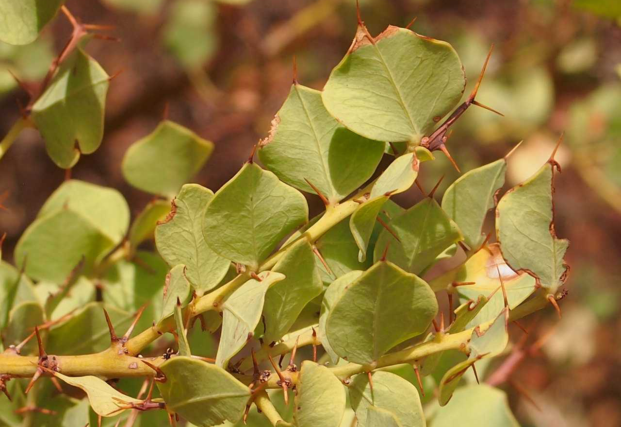 Acacia strongylophylla leaves